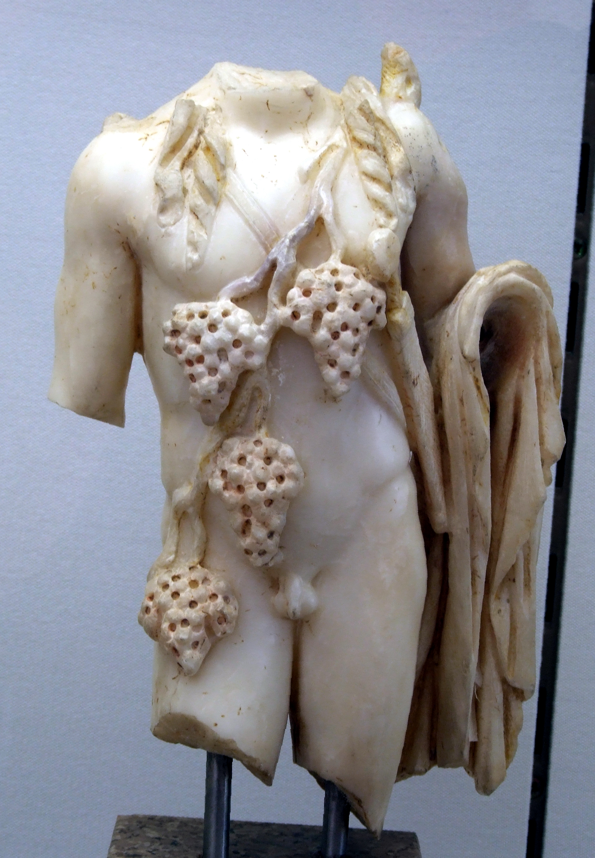 Torso of Dionysos with swors and a vine. Rome, 1st half 2 c. (Pushkin Museum).